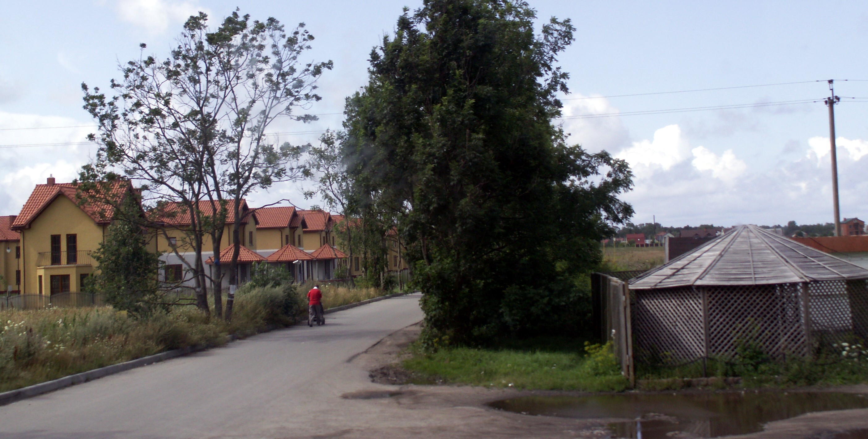 Klintsovka, Kaliningrad oblast